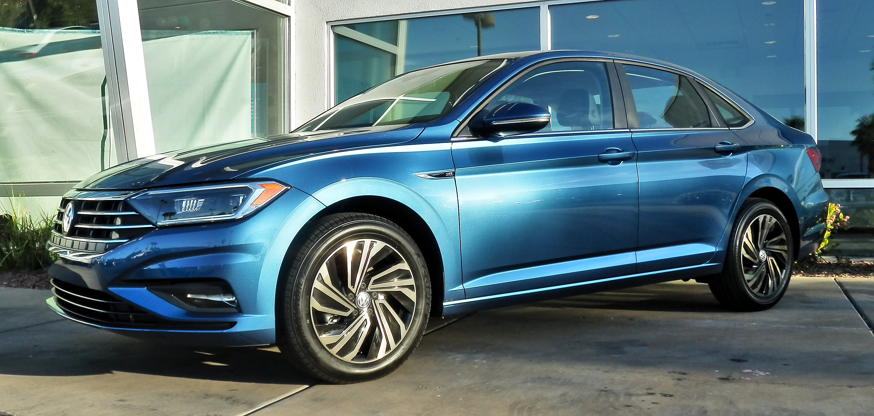 VW Jetta VII in Las Vegas